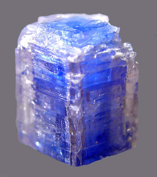 Carletonite Locality: Poudrette quarry (Demix quarry; Uni-Mix quarry; Desourdy quarry), Mont Saint-Hilaire, Rouville RCM, Montérégie, Québec, Canada (Locality at ) SUPER floater crystal with very rich blue core that is unusually well-delineated form the clear outer layer so common in these specimens (though often the demarcation isnt so sharp) 1.0 x 0.7 x 0.6 cm